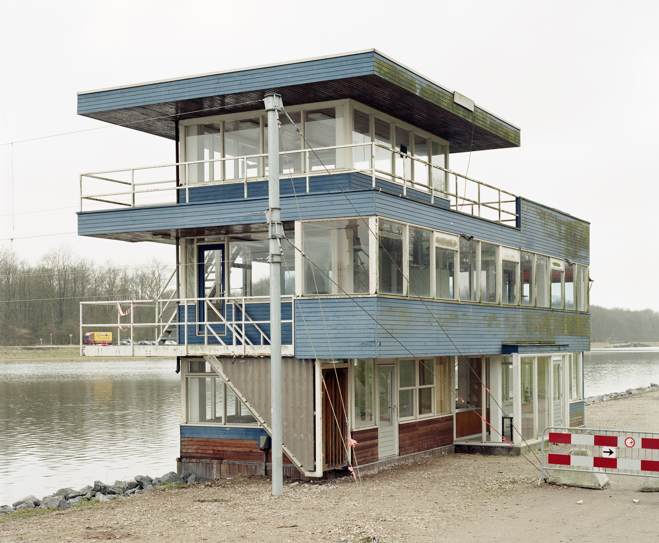 The old overseer's house at the Bosbaan in the Amsterdam Forest, March 2003. Now demolished.